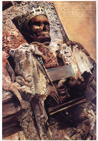 Remains of Queen Barbara Radziwiłłówna in the Vilnius Cathedral.